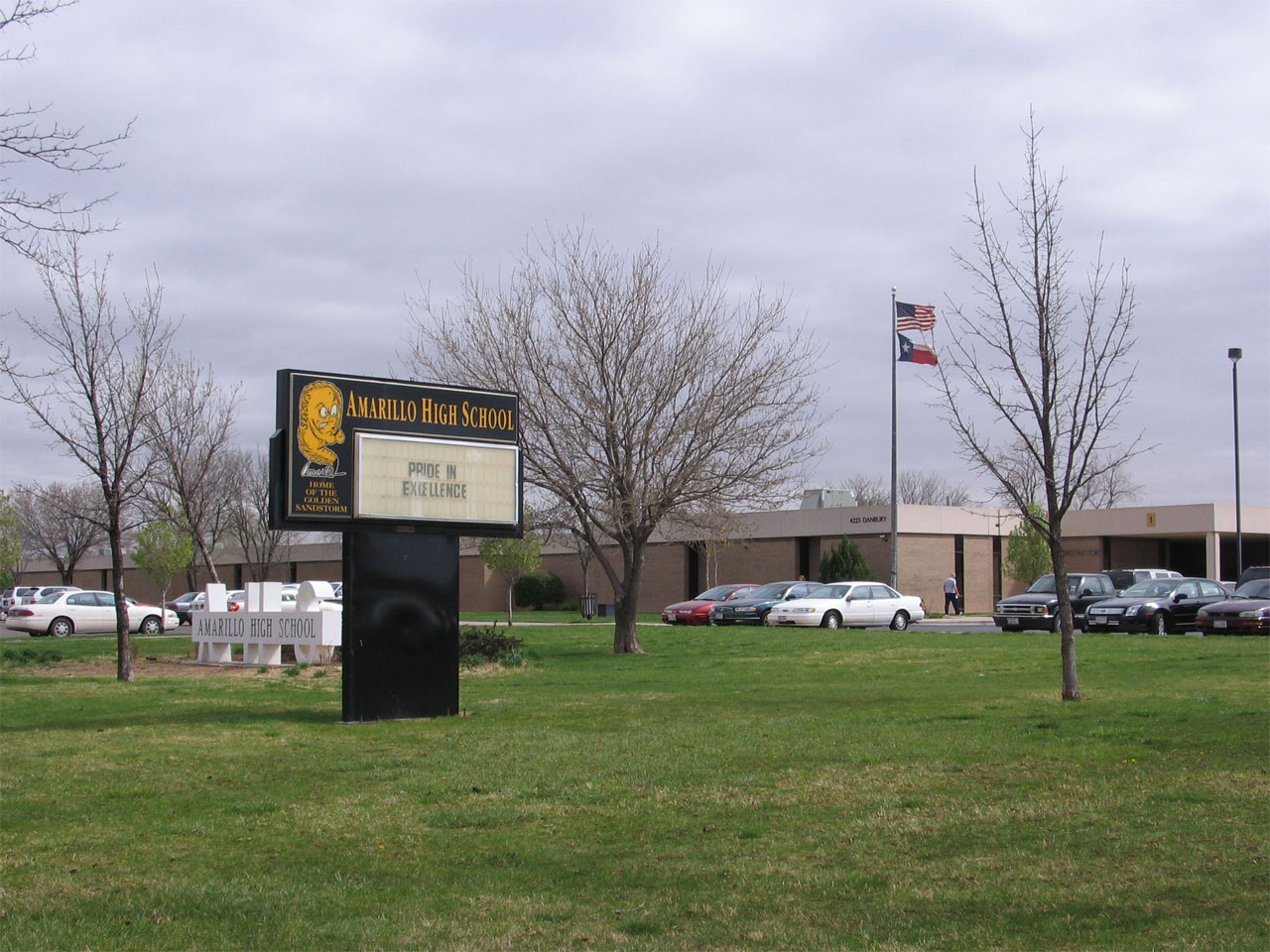 In front of Amarillo High School in Amarillo, Texas, USA. Photo by the uploader and taken on April 7, 2006.